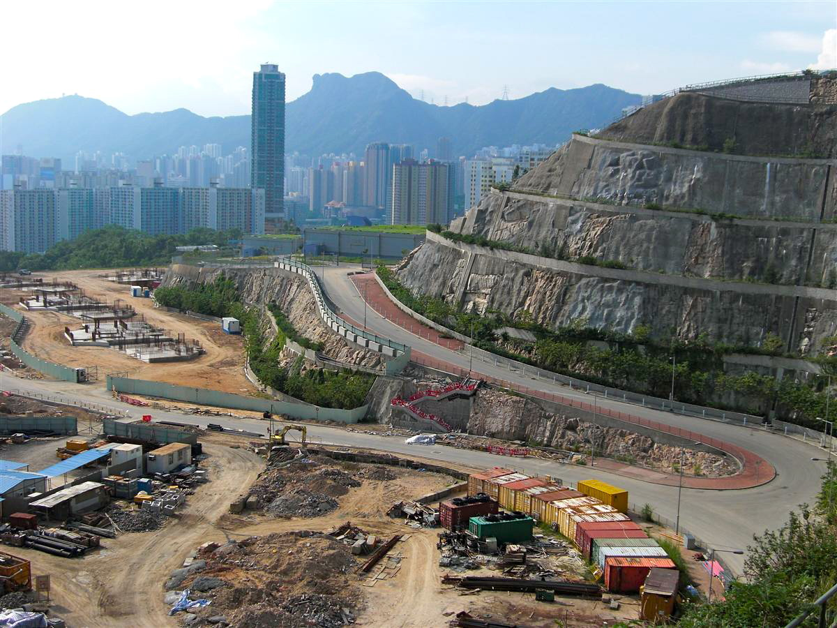 A view of Choi Wing Lane from Choi Wing Road.